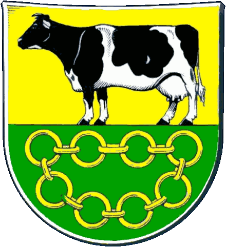 Coat of arms of Wanderup Blasonierung: Geteilt von Gold und Grün. Oben eine stehende schwarzbunte Kuh, unten eine goldene Kette von acht Gliedern.